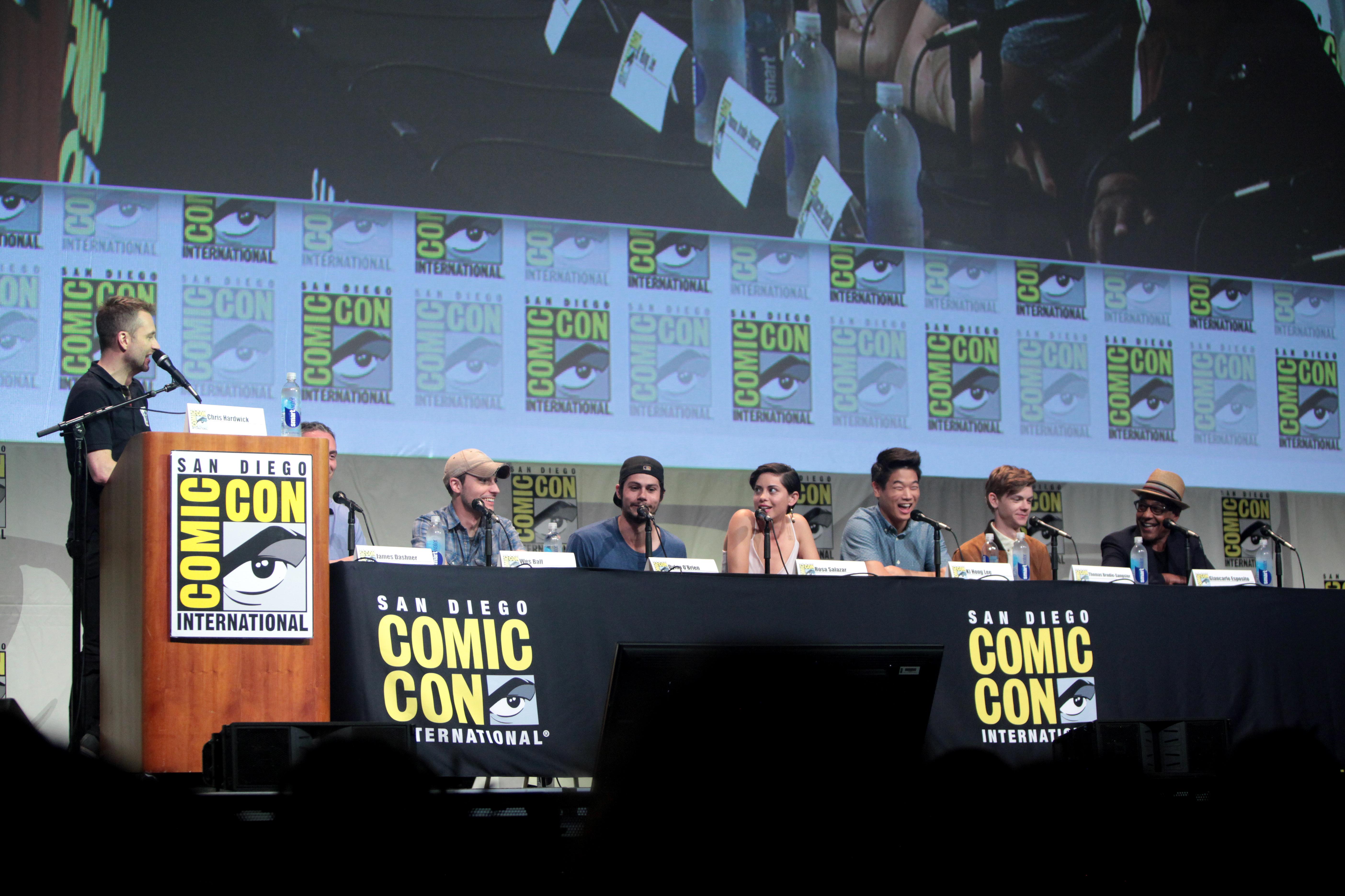 Chris Hardwick, James Dashner, Wes Ball, Dylan O'Brien, Rosa Salazar, Ki Hong Lee and Giancarlo Esposito speaking at the 2015 San Diego Comic Con International, for "Maze Runner: The Scorch Trials", at the San Diego Convention Center in San Diego, California.